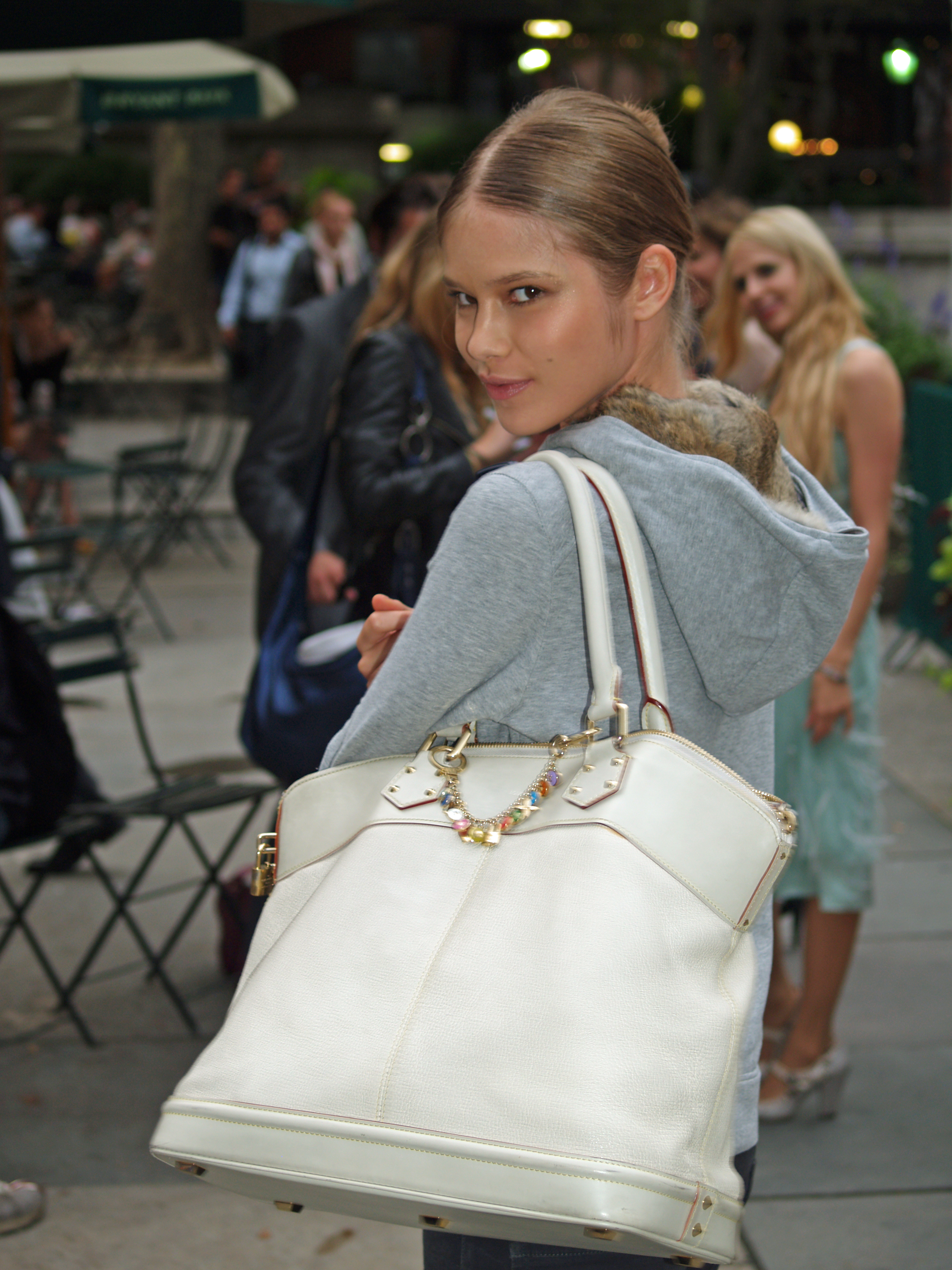 A model with no name recognition, who many photographers started to photograph outside the 2009 Spring collection Mercedes-Benz New York Fashion Week.